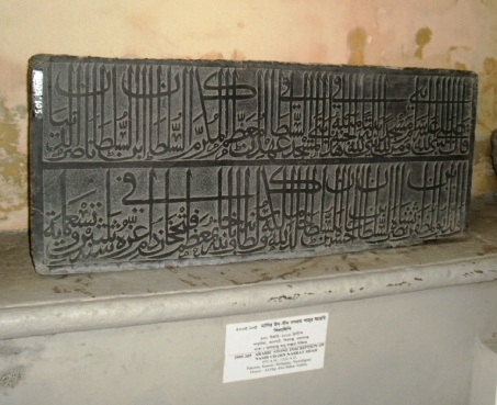 Photo of Arabic calligraph on stone, Varendra Research Museum, Rajshahi